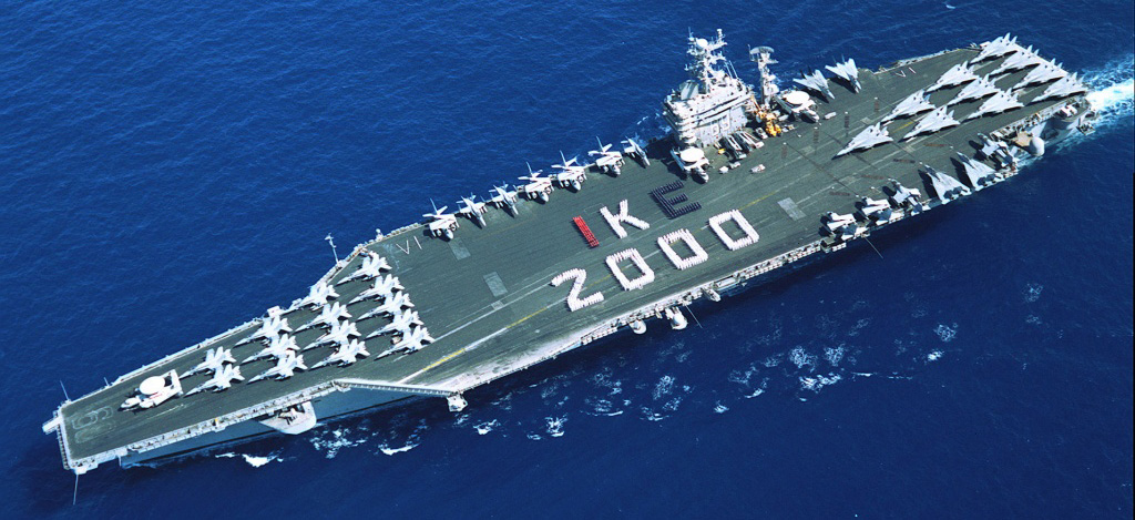 Cropped version of Image:USS Eisenhower CVN-69.jpg